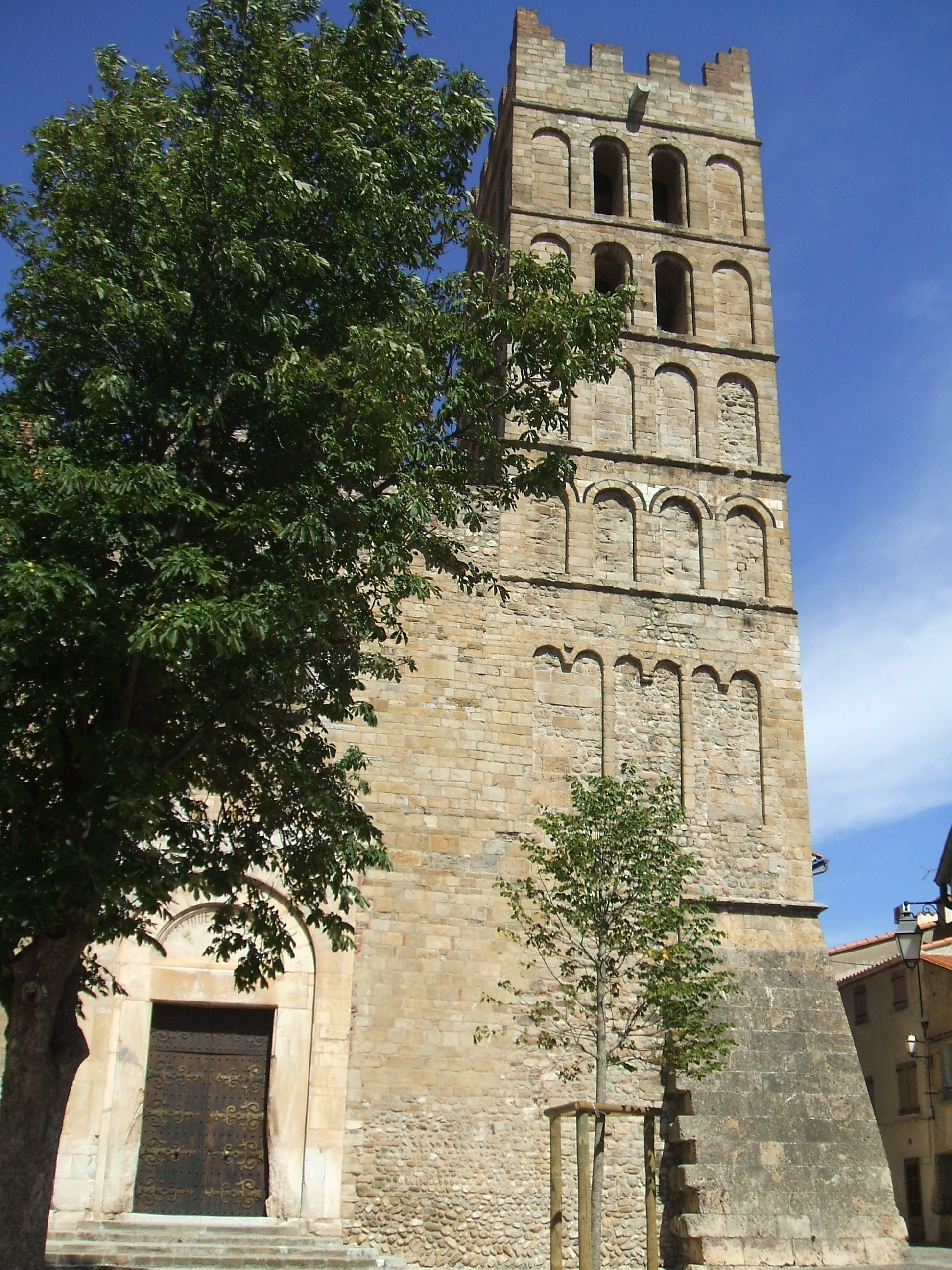 Elne Cathedral : southern bell tower (XIIth century)